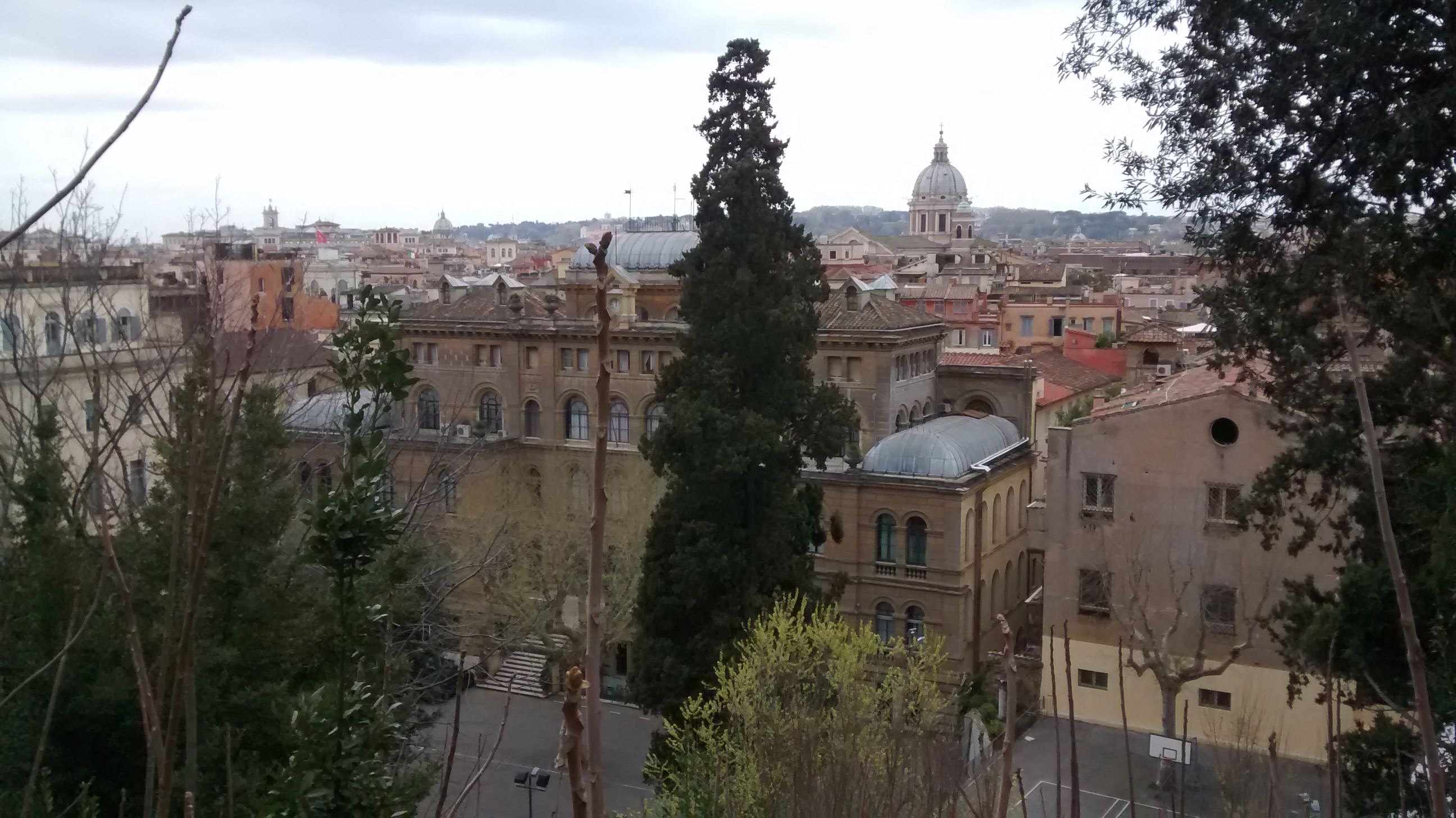 Erroma eraikinak goitik ikusita